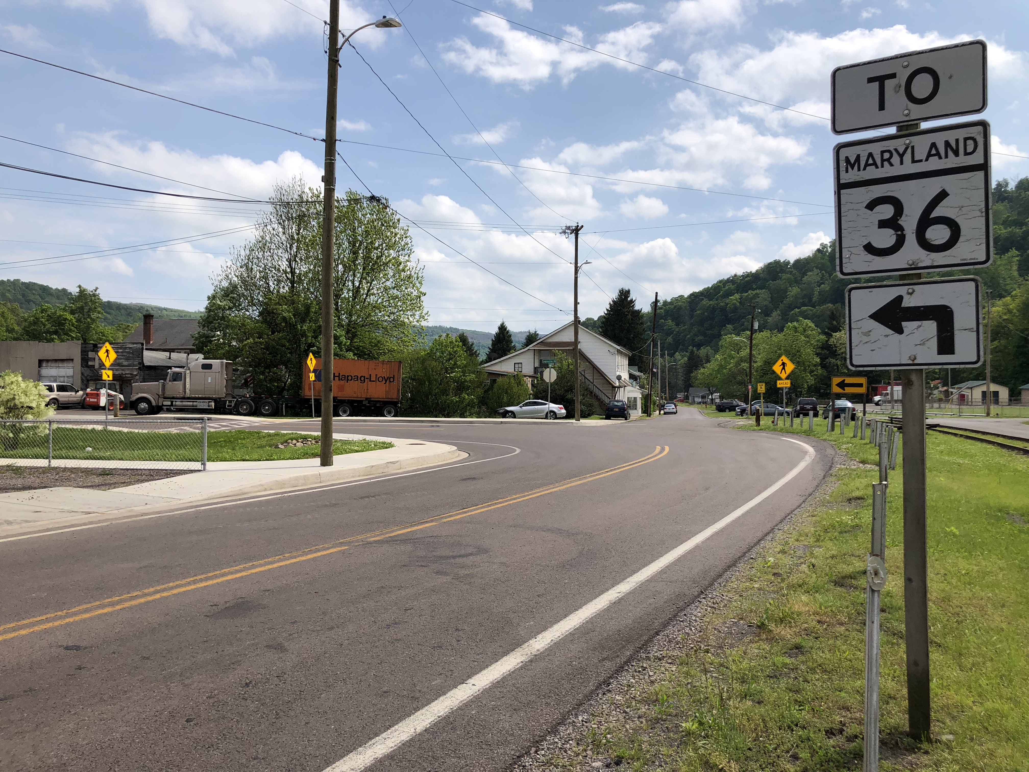 View south along Maryland State Route 935 (Legislative Road) just north of Railroad Street in Barton, Allegany County, Maryland